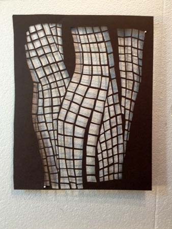 Paper artwork cut with knife